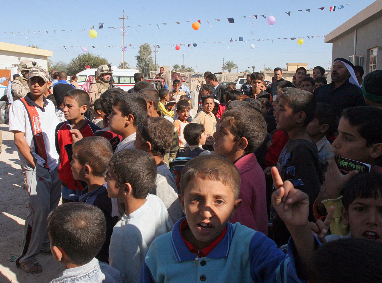 05 Iraqi children crowd outside of a newly built and opened elementary school and medical facility here in Habbaniyah Iraq. In prior months in this area, similar facilities were destroyed by terrorists utilizing a vehicle borne IEDs. Marines with the civil affairs detachment assigned to 5th Battalion, 10th Marine Regiment, Regimental Combat Team 6, contracted Iraqi civilians to re-build the facilities in an effort to provide the citizens of the Habbaniyah area with an educational and medical services.